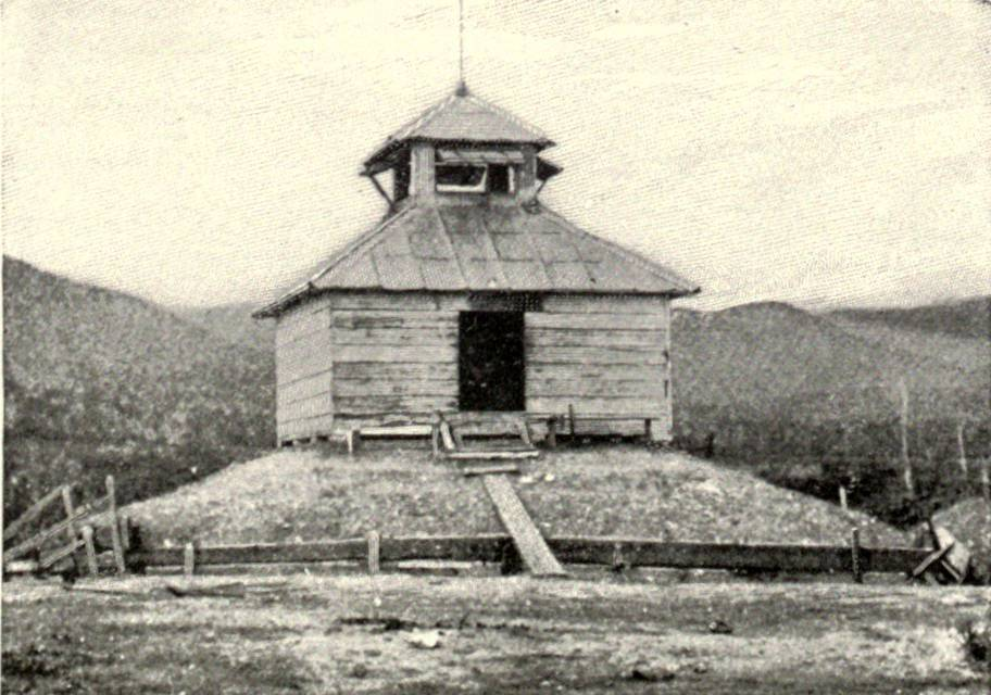 Spanish blockhouse in Cuba. From p. 334 of Harper's Pictorial History of the War with Spain, Vol. II, published by Harper and Brothers in 1899.